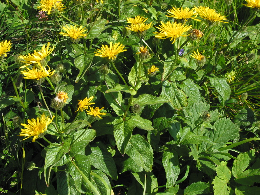 Crepis pyrenaica